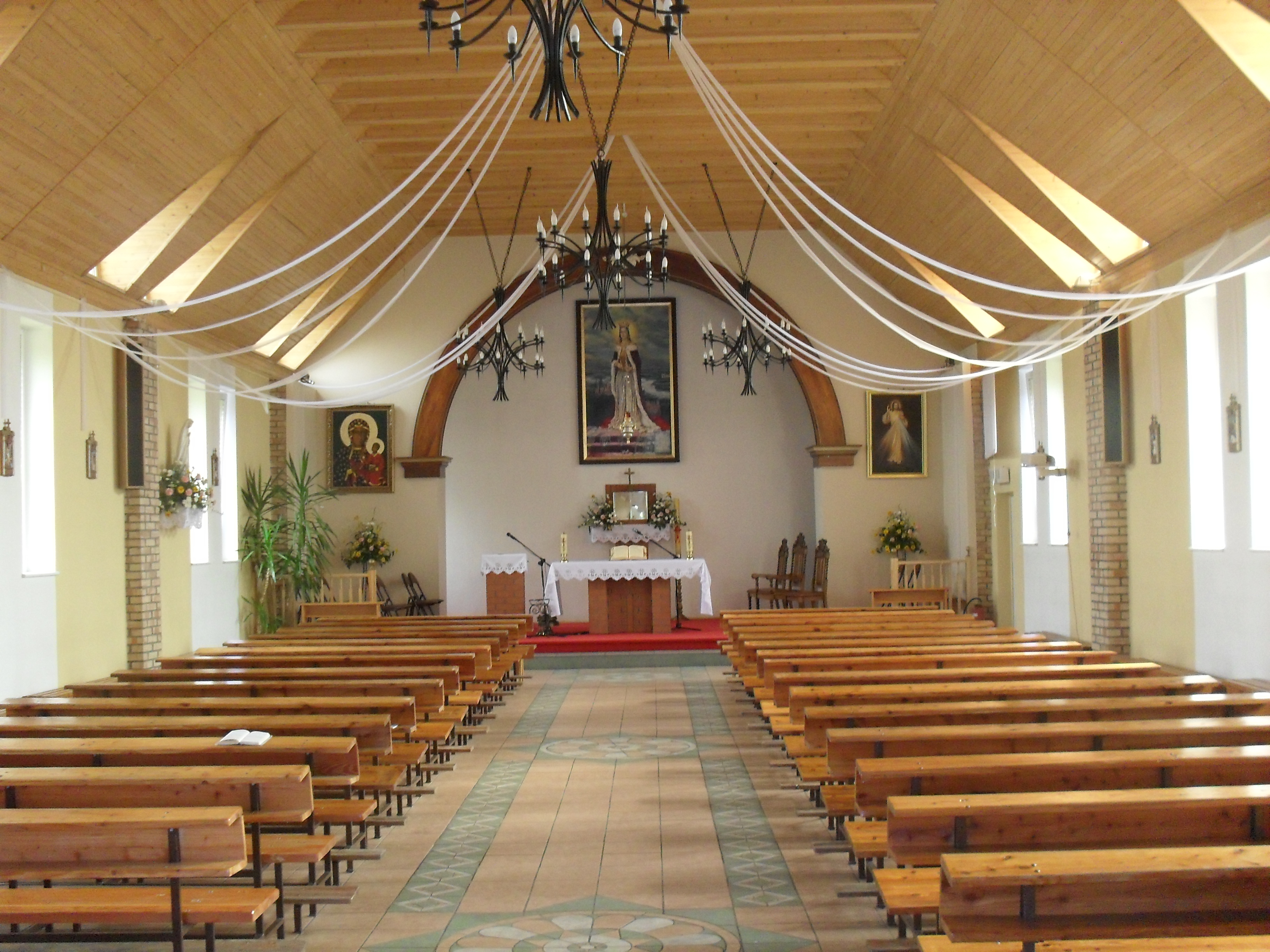 Church interior of Saint Jadwiga of Poland in Kijewo (Szczecin)